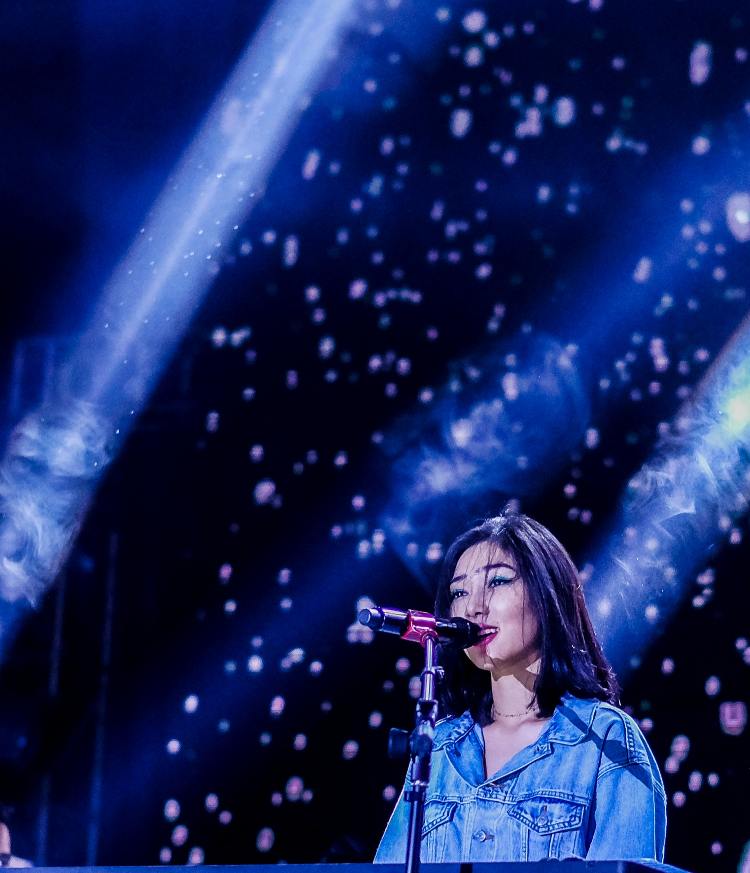 Isyana Sarasvati at F2WL Magnofestwo 2020.